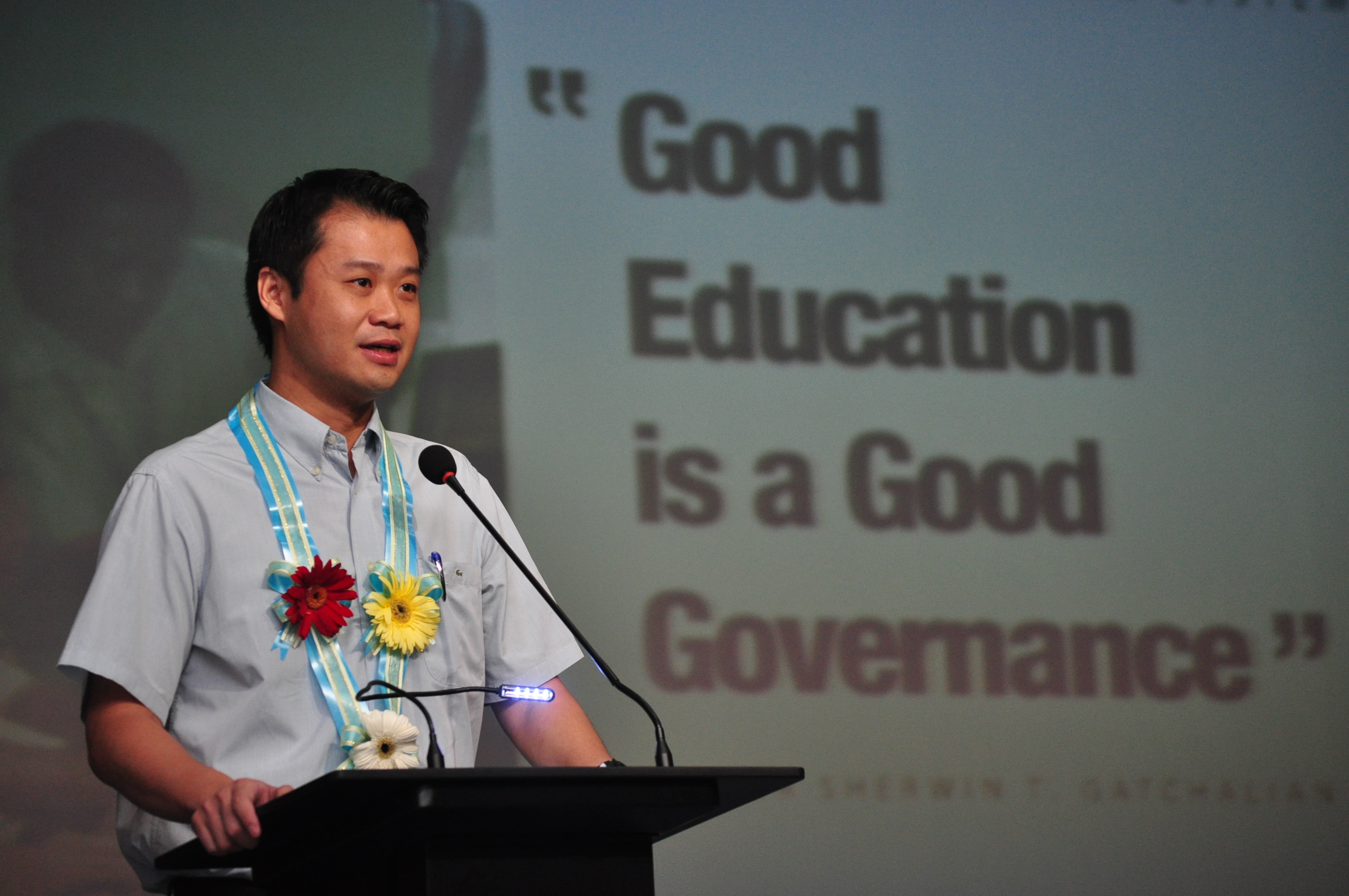 Valenzuela City Mayor Sherwin T. Gatchalian (2nd R) headlined as one of the resource speakers at the Alliance of Batangas Educators and School Administrators 3rd Education Summit held at the Batangas City Convention Cente, May 31, 2012.The mayor spoke before an audience of 2,000 elementary and high school educators and shared how Valenzuela City worked on improving its education sector by coming up with responsive and innovative yet practical solutions.